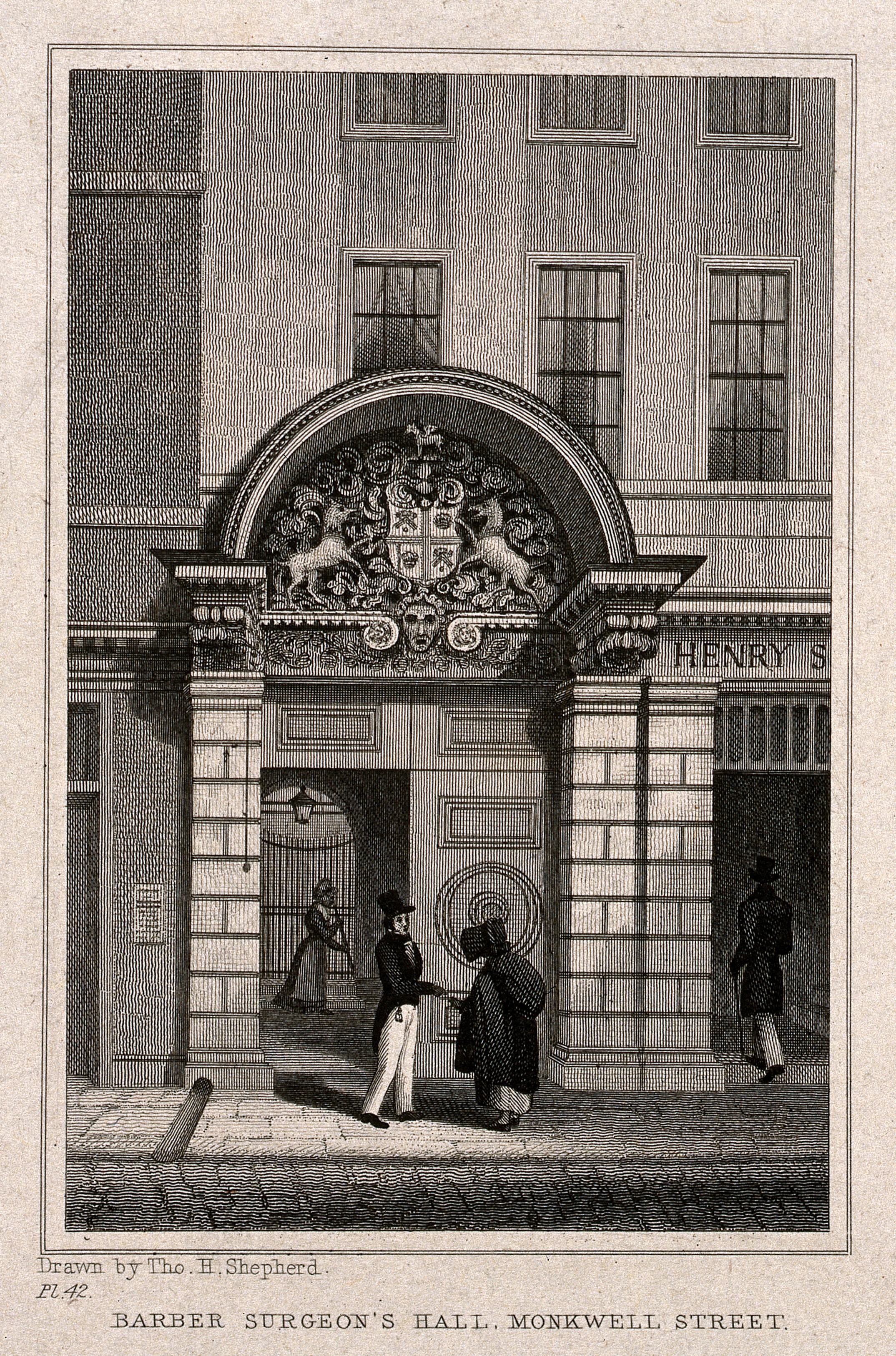 Barber-surgeons' Hall, Monkwell Street, London: the entrance to the hall, with elaborate heraldic carving above the doors. Engraving after T. H. Shepherd, 1830. Iconographic Collections Keywords: Company of Barber-Surgeons (London); Thomas Hosmer Shepherd; Inigo Jones; Barber-Surgeons' Hall (London, England)